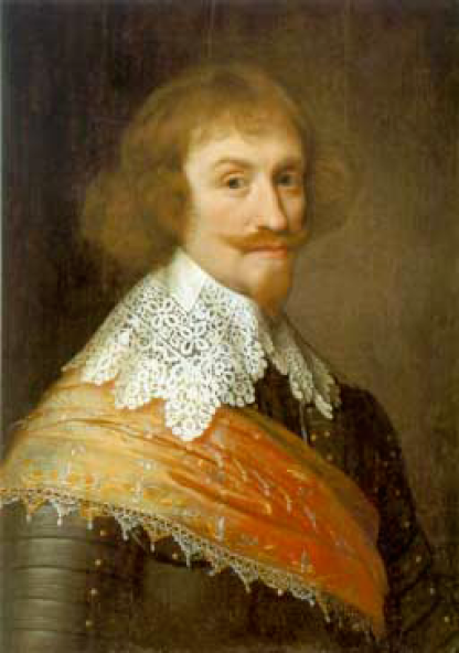 Jean-Maurice of Nassau-Siegen (or Johann Moritz von Nassau-Siegen), 1603-1679, was the general governor of the Dutch colonies in Brazil. This oil-painting portrait in 1637 is preserved at Siegerlandmuseum of Siegen.